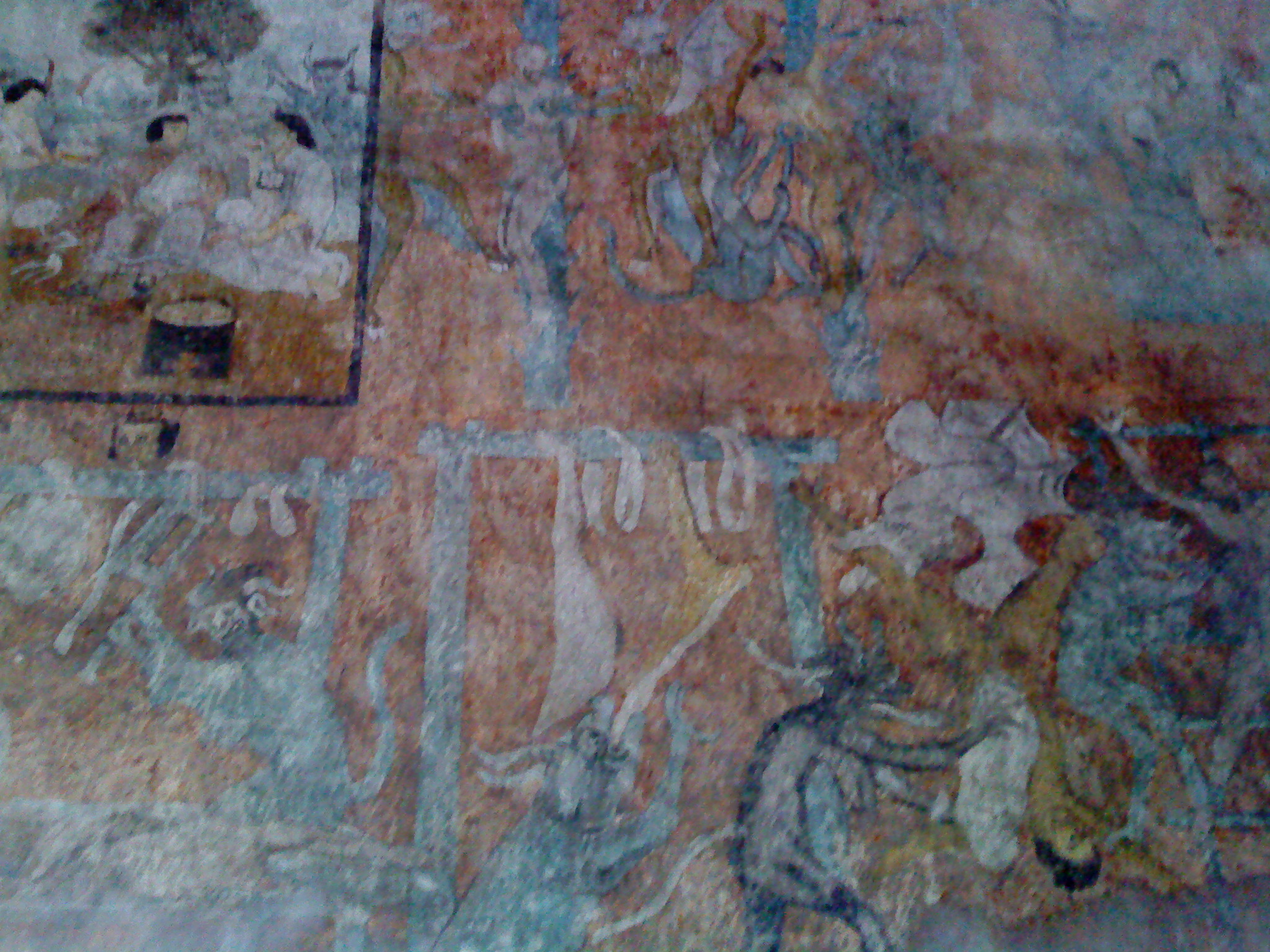 paintings on Xoxoteco chapel, Hgo, Mex